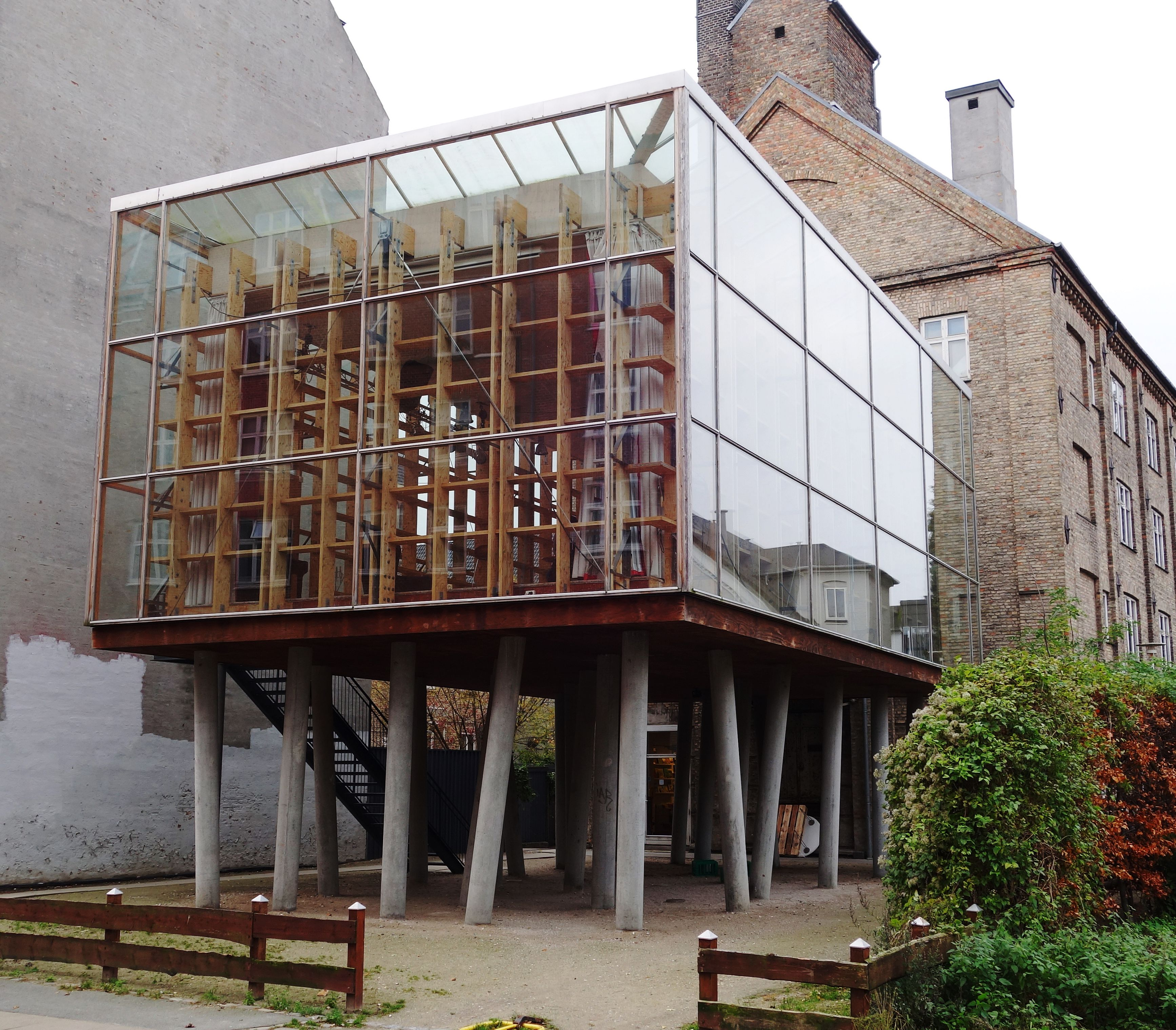 Kvarterhuset - Neighbourhood Centre - Amagerbro, Copenhagen - Dorthe Mandrup Architects, 2001